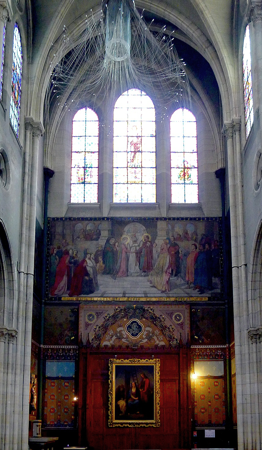 Saint-Jean-Baptiste of Belleville church - Paris